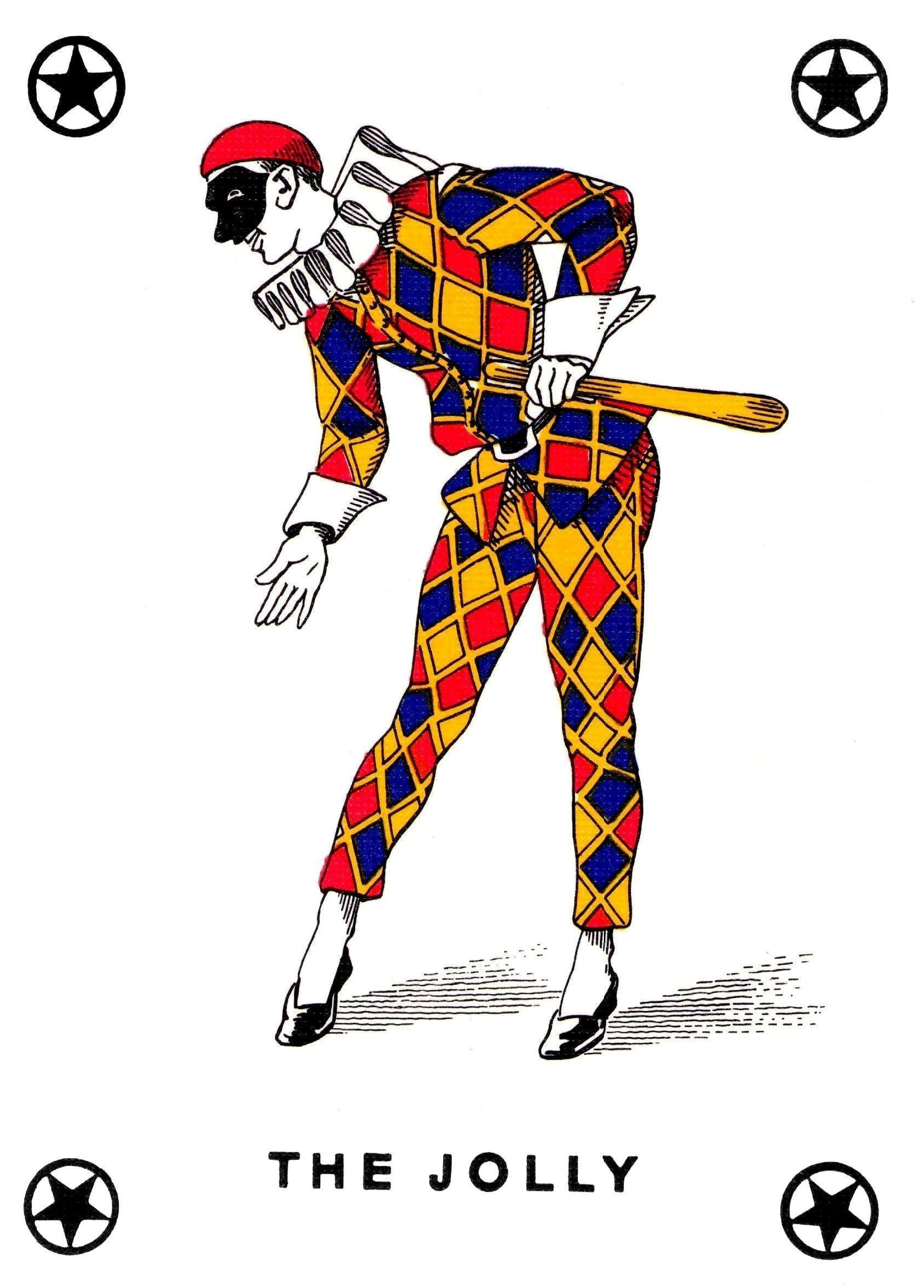 The Jolly, vintage Masenghini playing card printed in Bergamo, Italy, n.d.